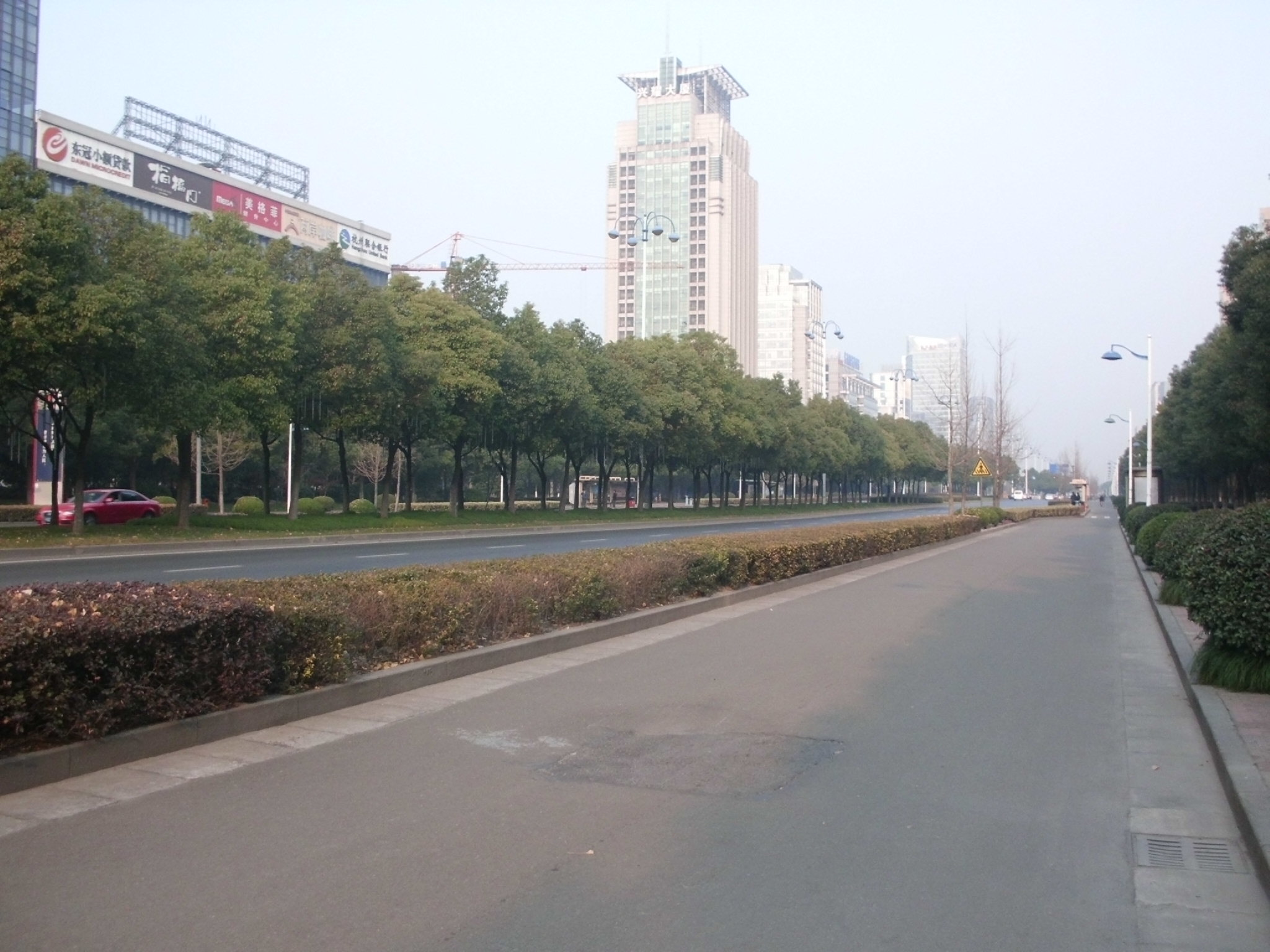 JIANG NAN AVE